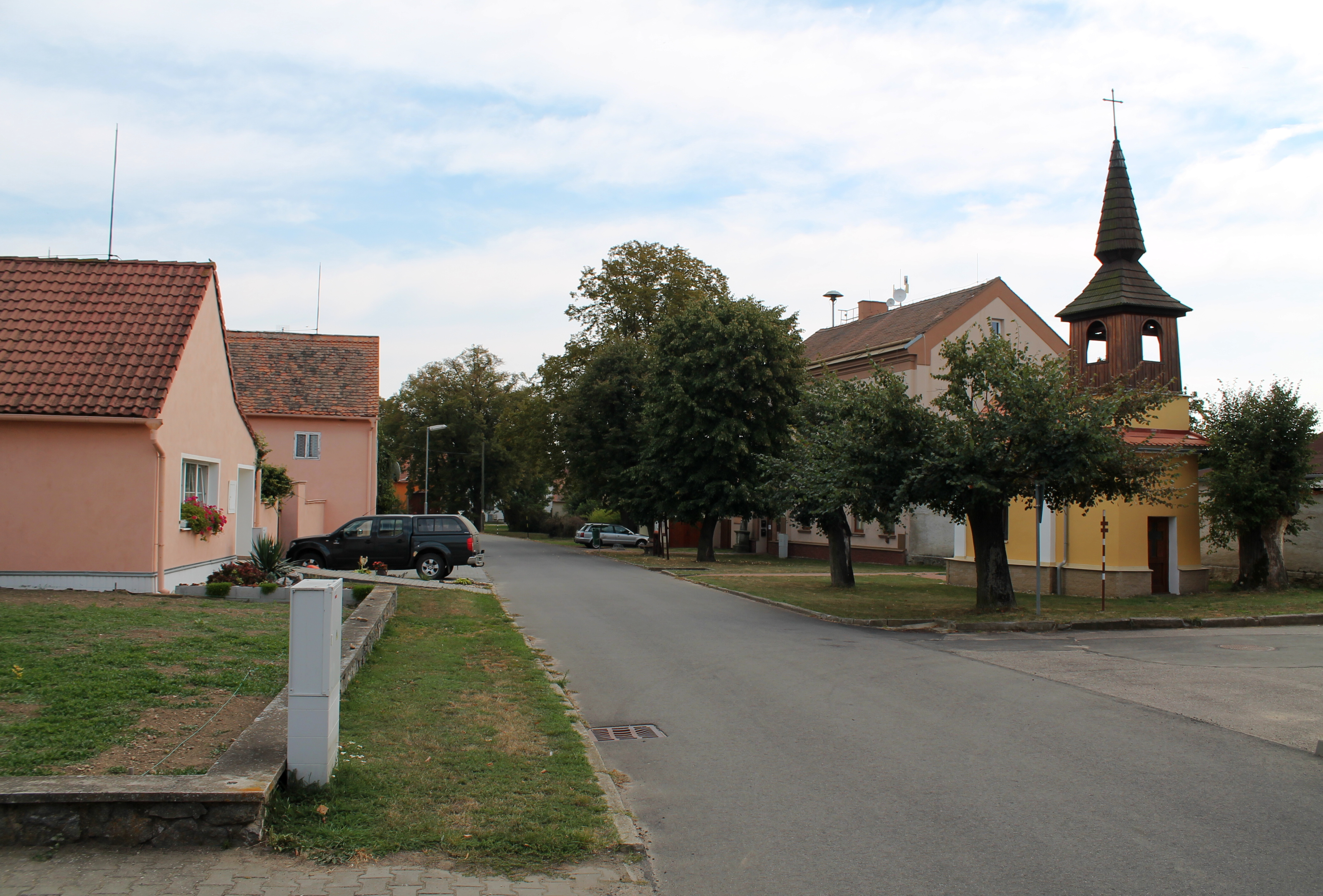 Křepice, Znojmo District, Czech Republic This photograph was taken during a group photography field trip by Brno Wikipedians: 2016-09-28.